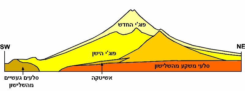 Geological cross-section of Fuji